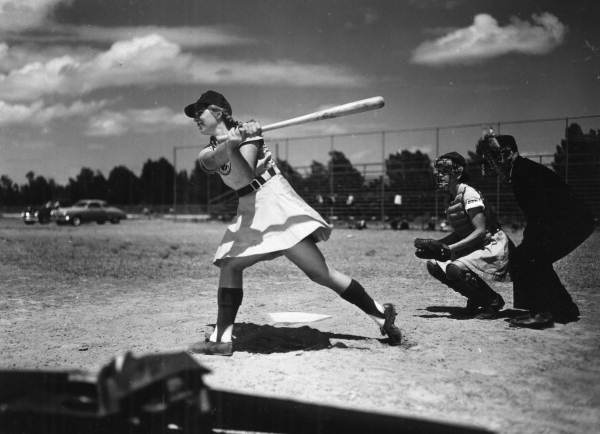 Local call number: c009825 Title: [View of All American Girls Professional Baseball League member Dottie Schroeder getting a hit : Opalocka, Florida] Date: Photographed on April 22, 1948. Physical descrip: 1 photoprint : b&w ; 4 x 5 in. Series Title: (Department of Commerce collection) General Note: Accompanying note: "Hit: Its a hit and batter Dottie Schroeder, blonde pigtails and all, start[s] running for first. Catcher Mary Rountree and Umpire Norris Ward. These girls really hit...and are lightning when running." Biographical note: Dorothy "Dottie" Schroeder was born on April 11, 1928 and became the All-American Girls Professional Baseball League's youngest player at age fifteen. Miss Schroeder was the only girl who played all 12 seasons for the AAGPBL. She passed away on December 8, 1996. Repository: 500 S. Bronough St., Tallahassee, FL 32399-0250 USA. Contact: 850-245-6700. Persistent URL